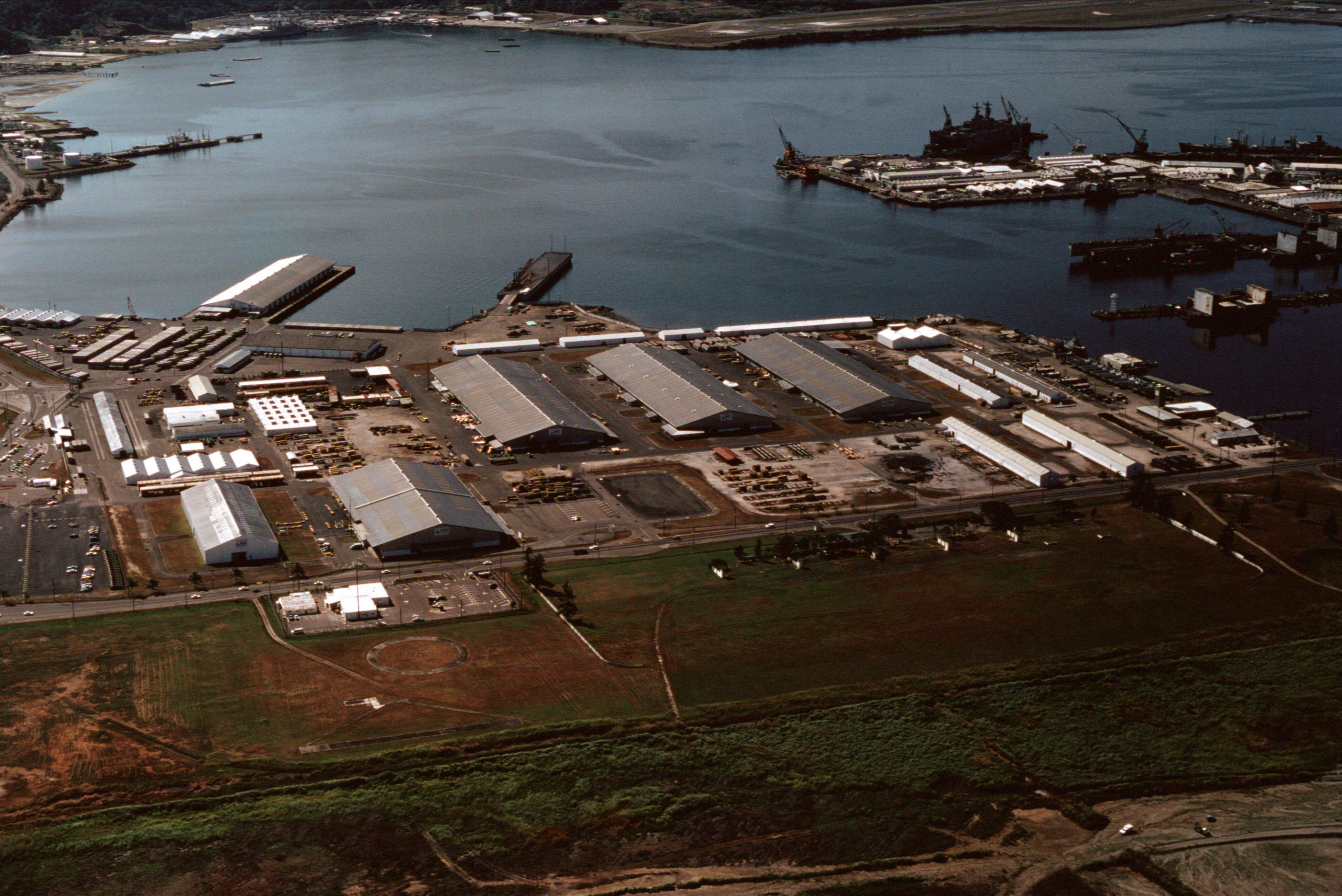 An aerial view of US Naval Facility Supply Depot.Location: NAVAL STATION, SUBIC BAY, LUZON PHILIPPINES (PHL)